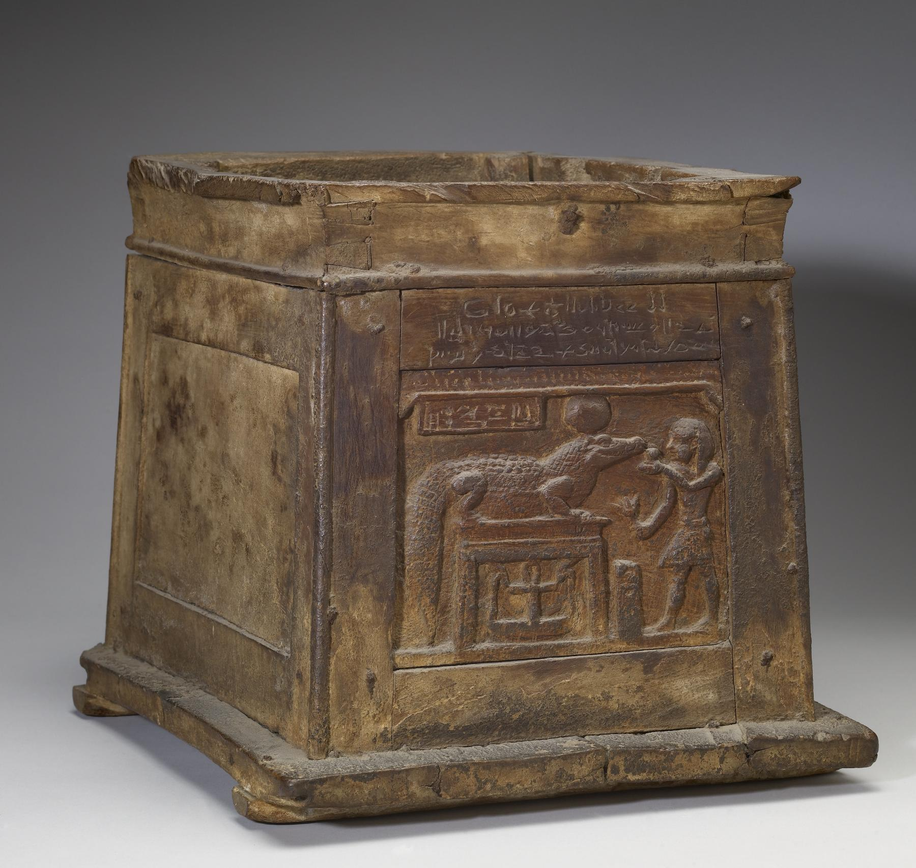 The front of this box shows a king making an offering to the crocodile-god Sobek. Above the scene is an inscription in demotic. The box may have been used in temple rituals.